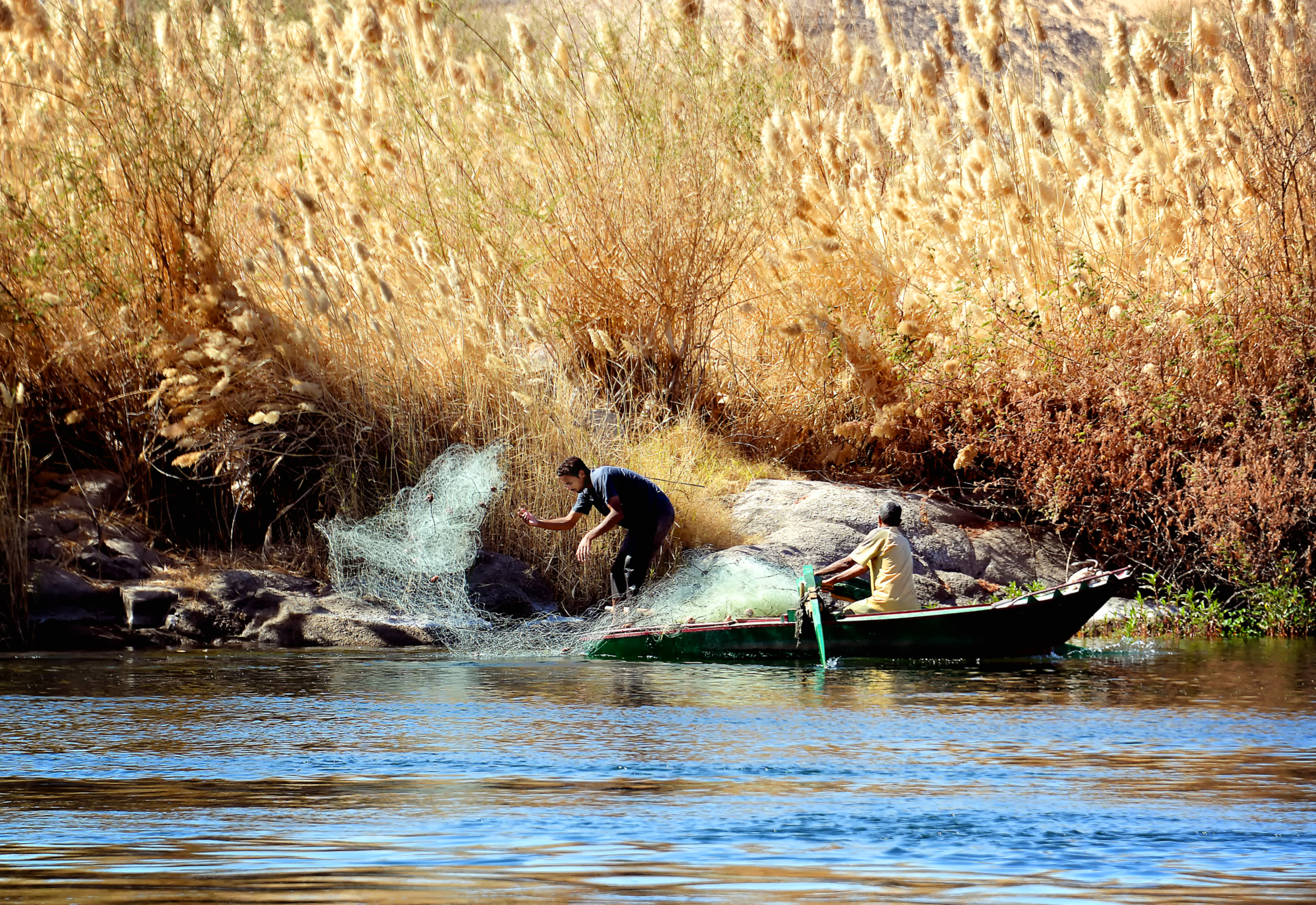 Fishing in Nubia - Egypt This is an image with the theme "Africa on the Move or Transport" from: Egypt